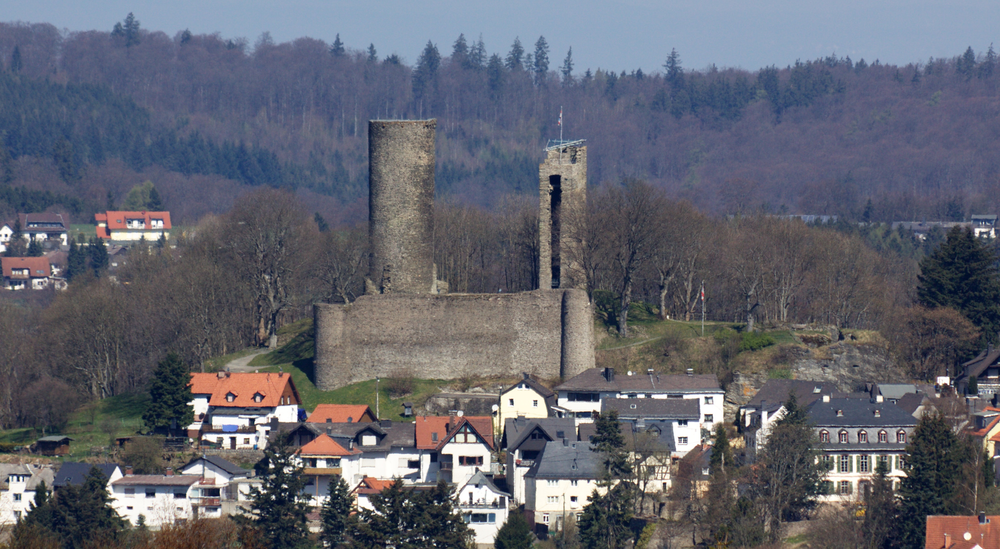 The remains of the Reiffenberg castle at Oberreifenberg (Taunus), Germany. View from south-southeastern direction. In the lower right corner of the picture the Bassenheim Palais can be seen with its enclosing wall.